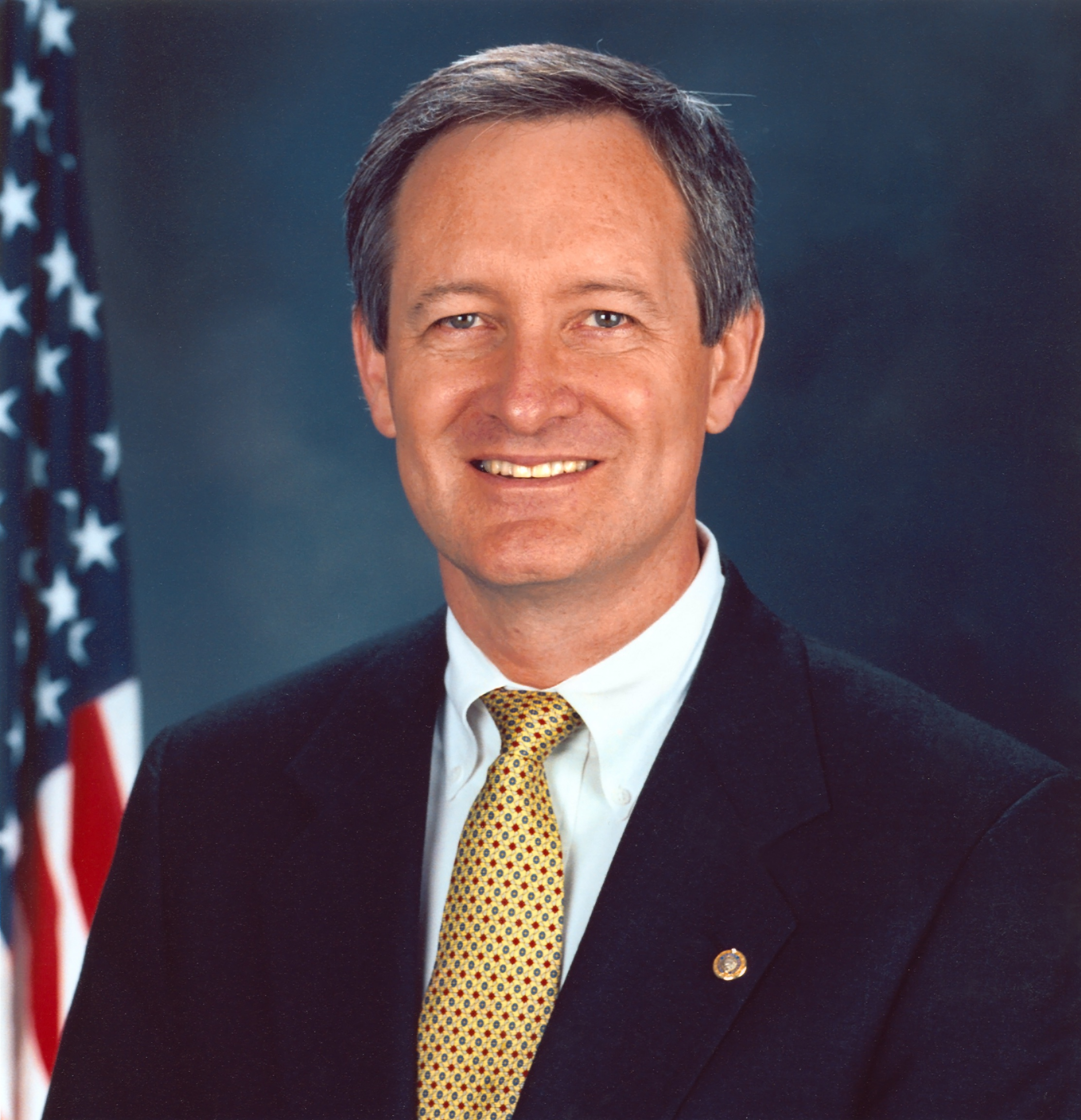 Mike Crapo, U.S. Senator from Idaho.